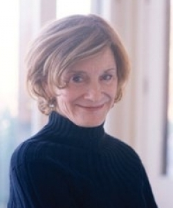 Elizabeth Hawes (also known as Betsy Hawes Weinstock) is the author of New York, New York, How the Apartment House Transformed the Life of the City, 1869-1930 and Camus a Romance.